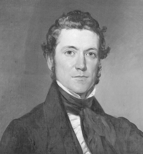 Peter Henry Sylvester, New York Congressman.